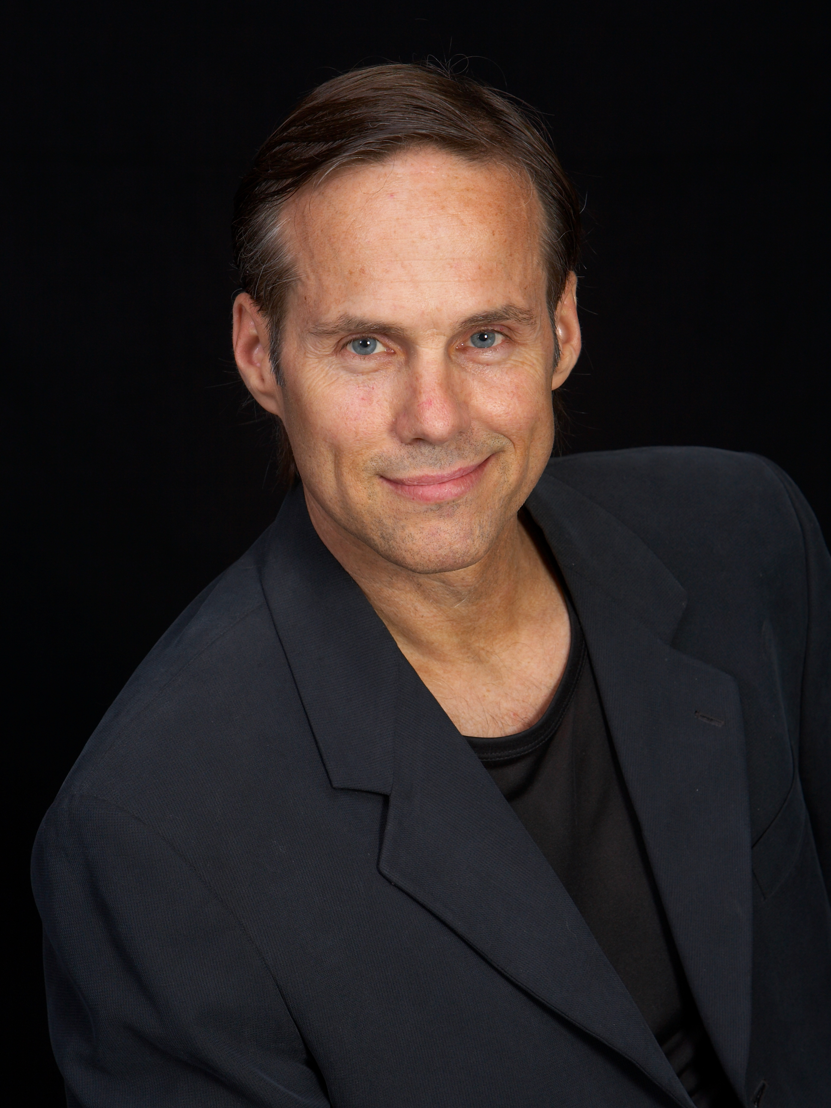 Mike L. Fry, founder of Fancy Fortune Cookies